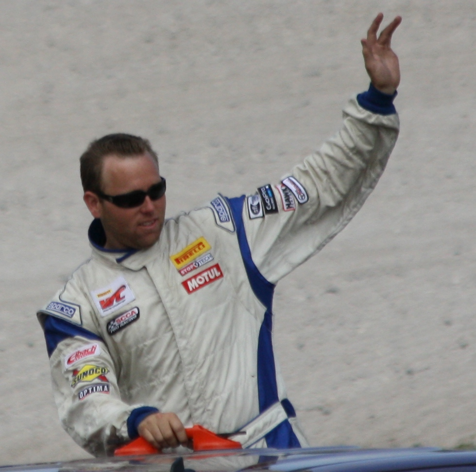 NASCAR driver Kyle Kelley at the 2013 Johnsonville Sausage 200 Nationwide race at Road America.